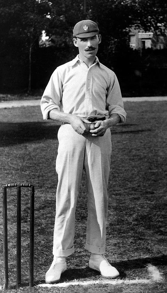 Sport, Cricket, Circa 1905, Edward George Dennett (1879-1937), Professional, Lower order left hand batsman & slow left arm bowler, He played for Gloucestershire (1903-1926) in 387 matches, He took 100 wickets in a season 12 times and exceeded 200 in 1907, He achieved the remarkable feat of all ten wickets in an innings (for 40 runs) v Essex in 1906